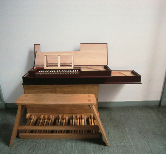 A Pedalclavichord 17th century.